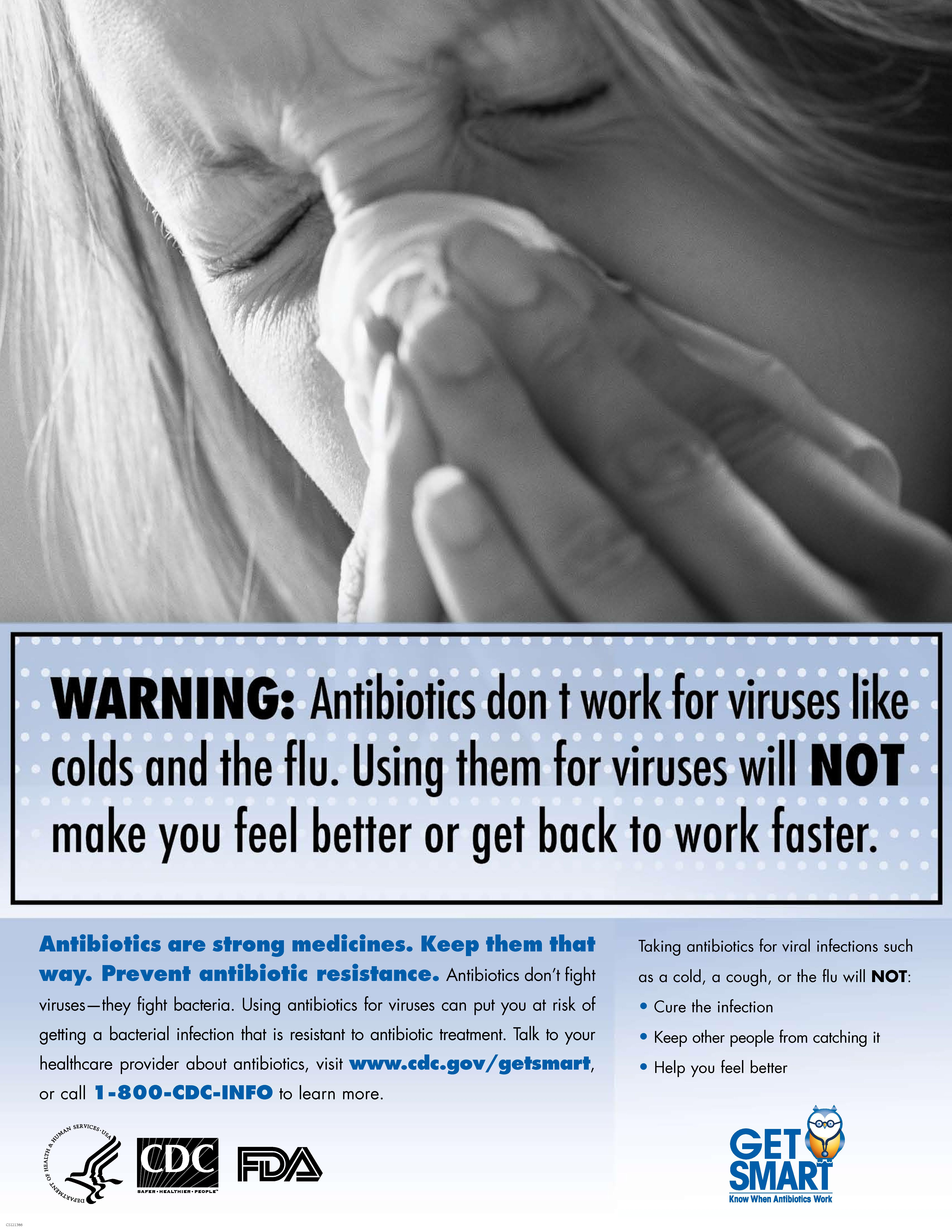 Original description: "This full color 17"x22" poster is planned for use in doctor's offices, clinics, other healthcare facilities, and media outlets. It is intended to raise awareness about appropriate antibiotic use for upper respiratory infections in adults. It explains that antibiotics are not the best answer for a cold or flu."